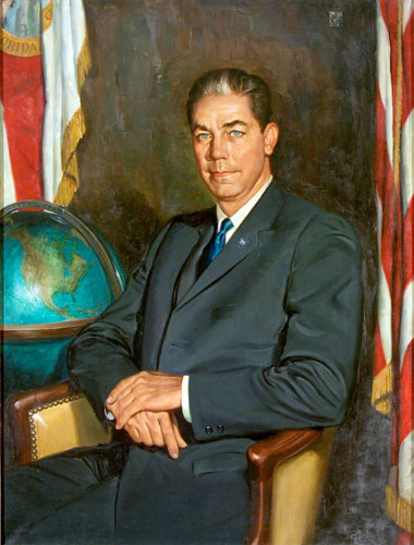 William Haydon Burns (1912–1987), Thirty-fifth governor of Florida, January 5, 1965 to January 3, 1967. Oil on canvas, Rafael M. De Soto, 1965.